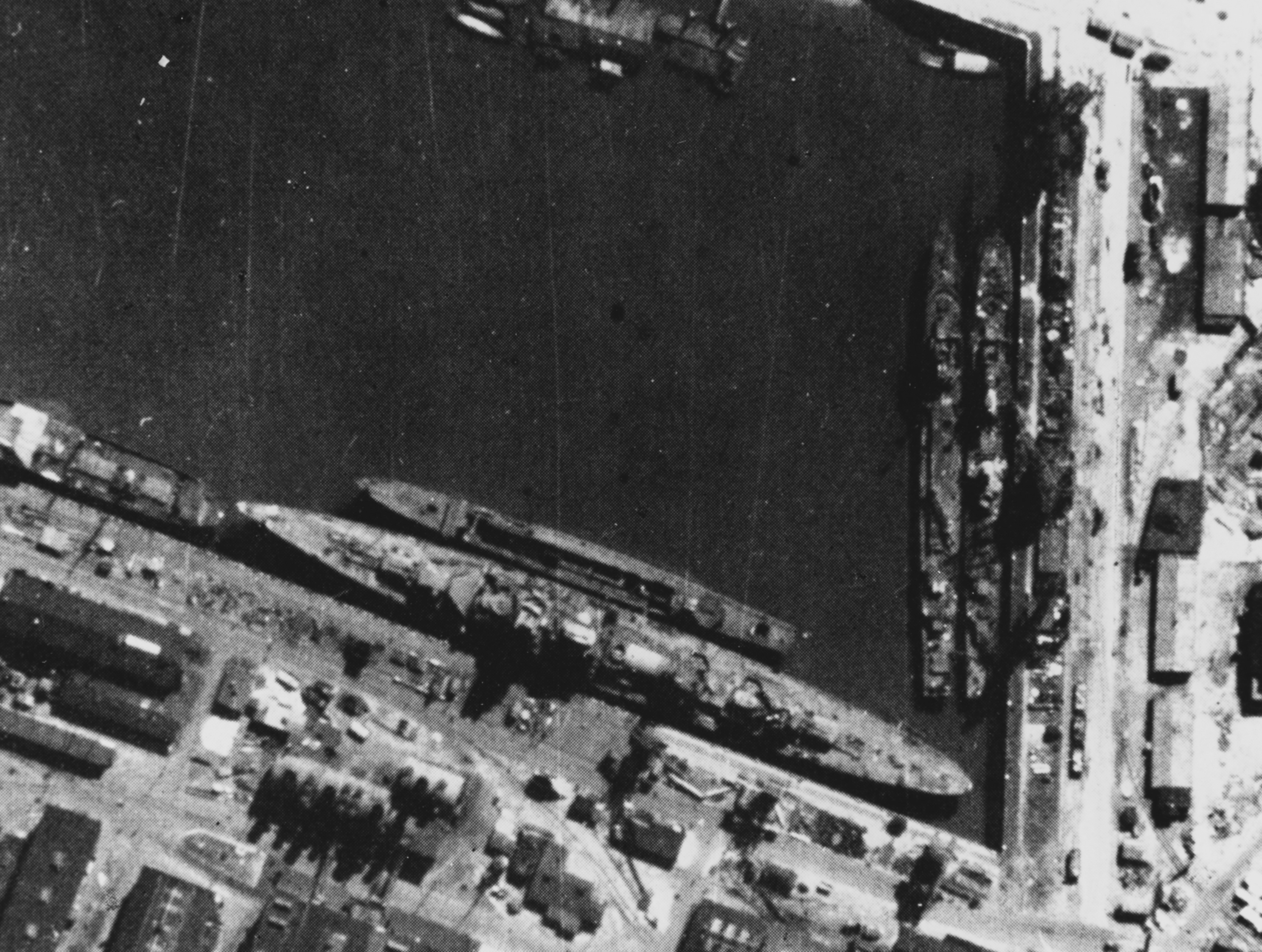 Fine screen halftone reproduction of a British Royal Air Force reconnaissance photograph of the Westhaven basin at Bremen, Germany, taken 8 May 1942. Ships present include the nearly complete heavy cruiser Seydlitz (launched in 1939 but never finished) and three destroyers. The destroyer alongside Seydlitz is probably Z 34, which had been launched on 5 May, three days before the photograph was taken. Her machinery spaces are still open and no guns appear to be on board. The other two destroyers, moored side-by-side at the head of the basin, are probably Z 32 (1942–1944), inboard with smokestacks in place, and Z 33 (1943–1946, later Soviet Provornyy), outboard with smokestacks not yet installed.